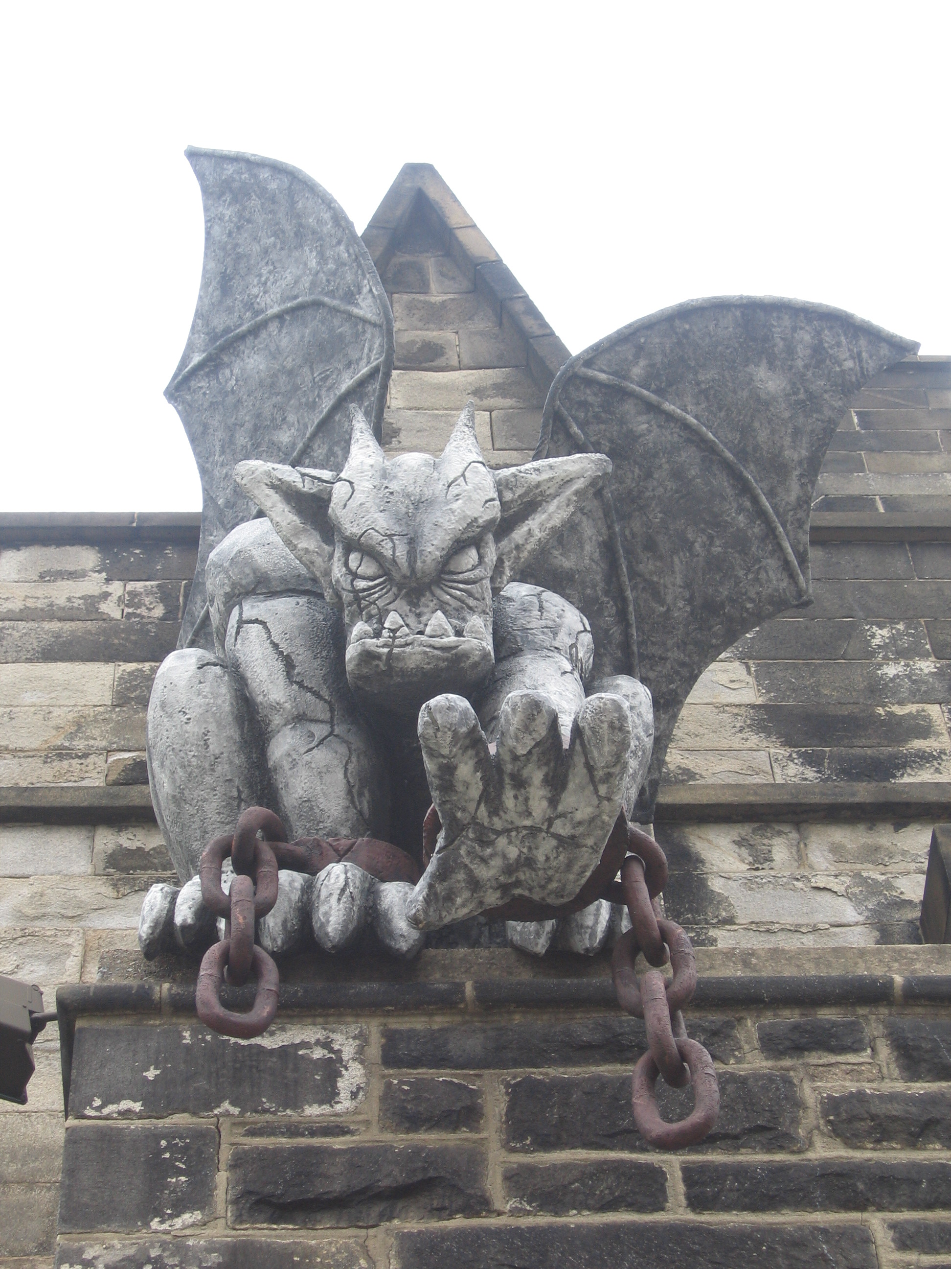 Gargoyle on outside portal to Eastern State Penitentiary, Philadelphia, Pennsylvania